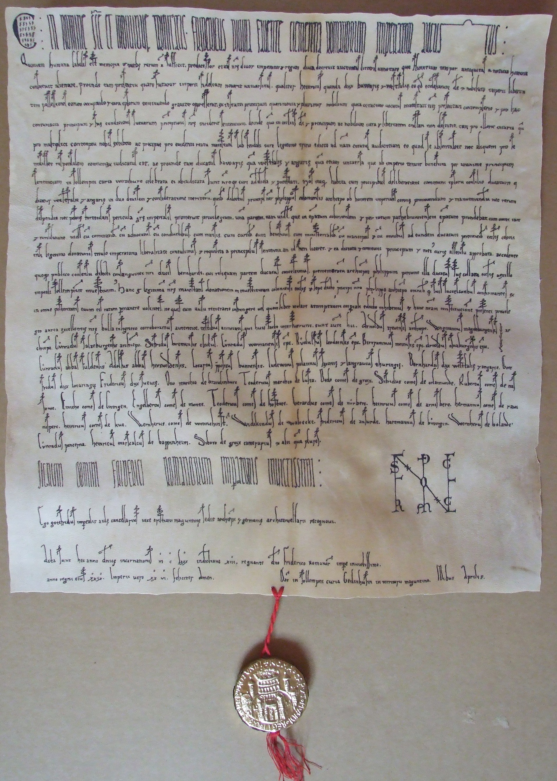 A copy of the 1945 lost Gelnhäuser Urkunde (April 1180).